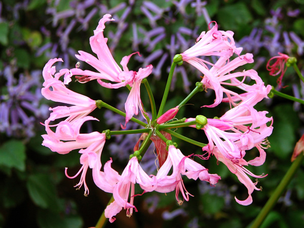 pink flowers 2009